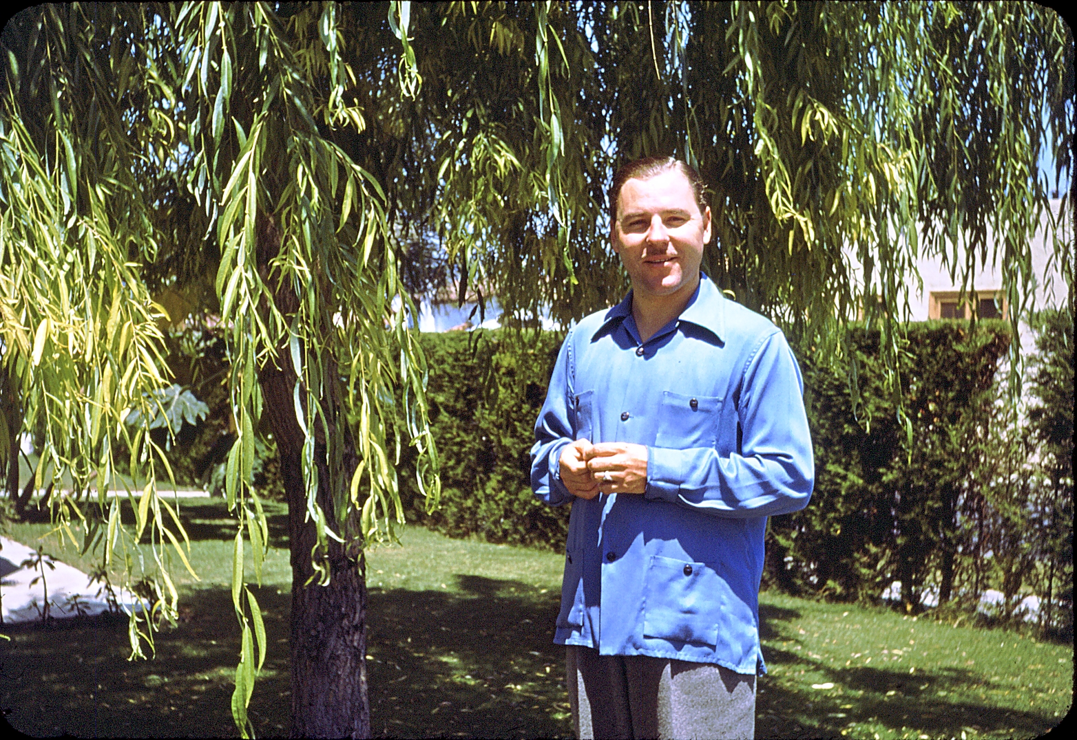 Gaylord Carter in the back yard of his Hollywood home.